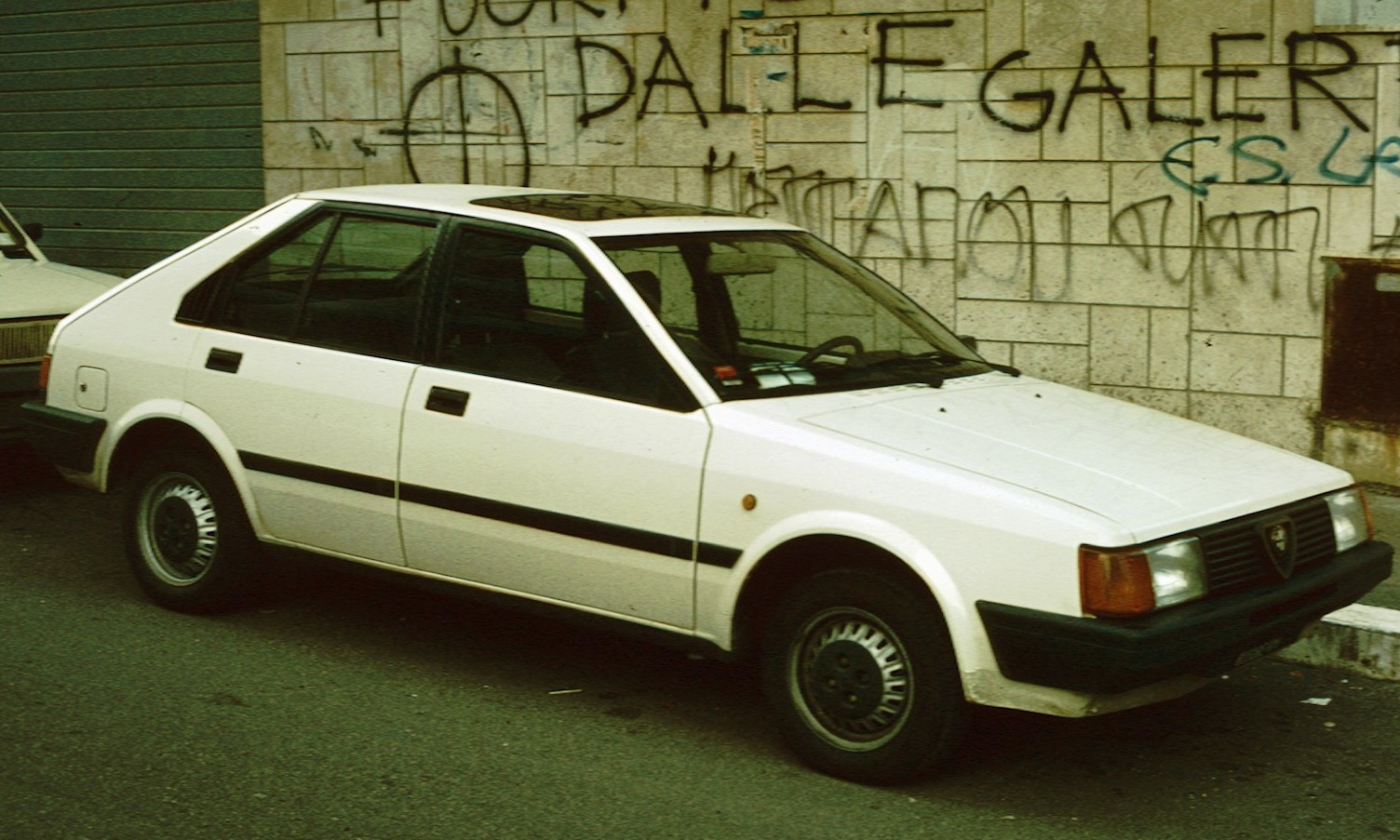 Alfa Romeo. Interesting angle with questionable background.